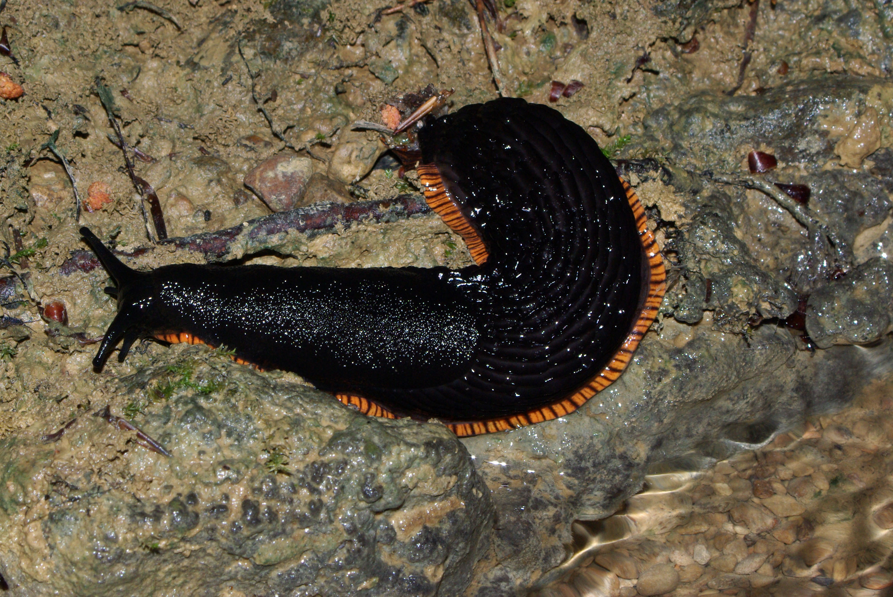 Arion rufus. San Zadornil, Burgos (Spain)